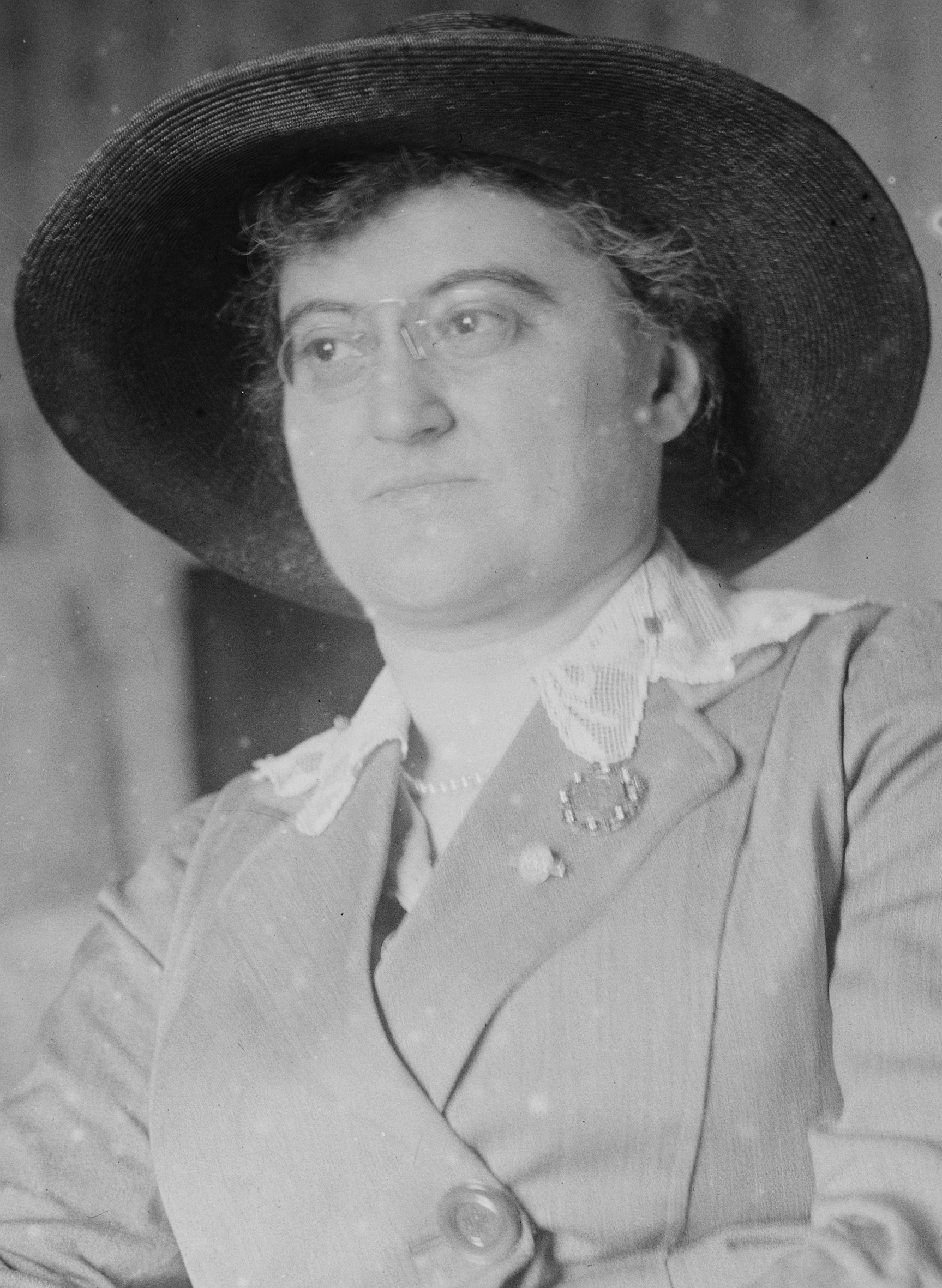 Hungarian-born pacifist and feminist Rosika Schwimmer (1877-1948)